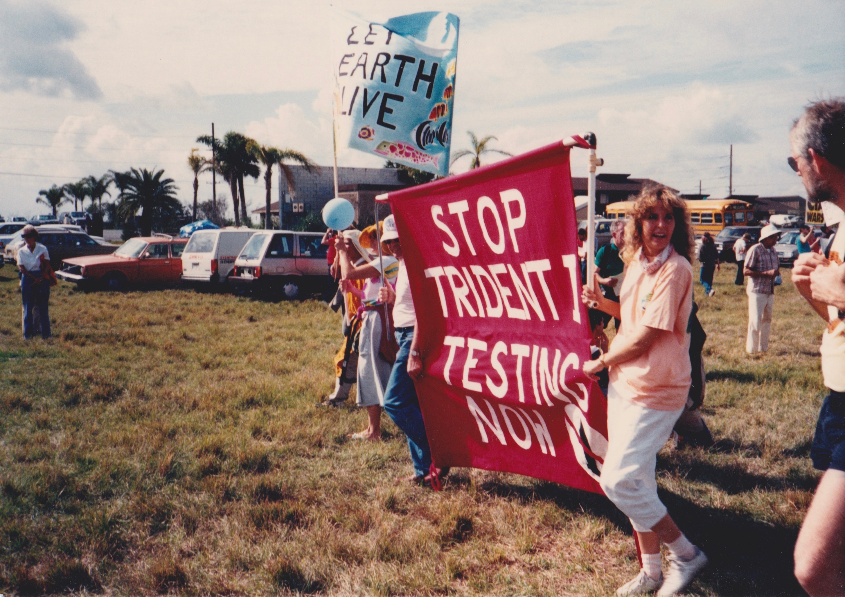 Protest against Trident II Missile, Cape Canaveral Florida, 1987.